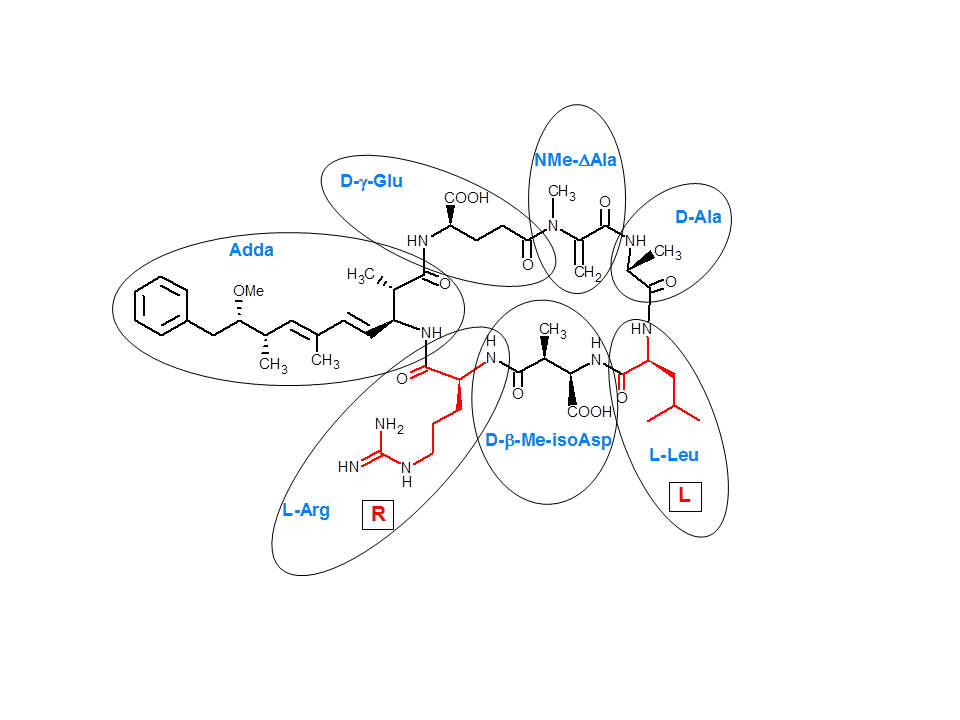 Corrected structure. No NMe on glu and OMe on Adda